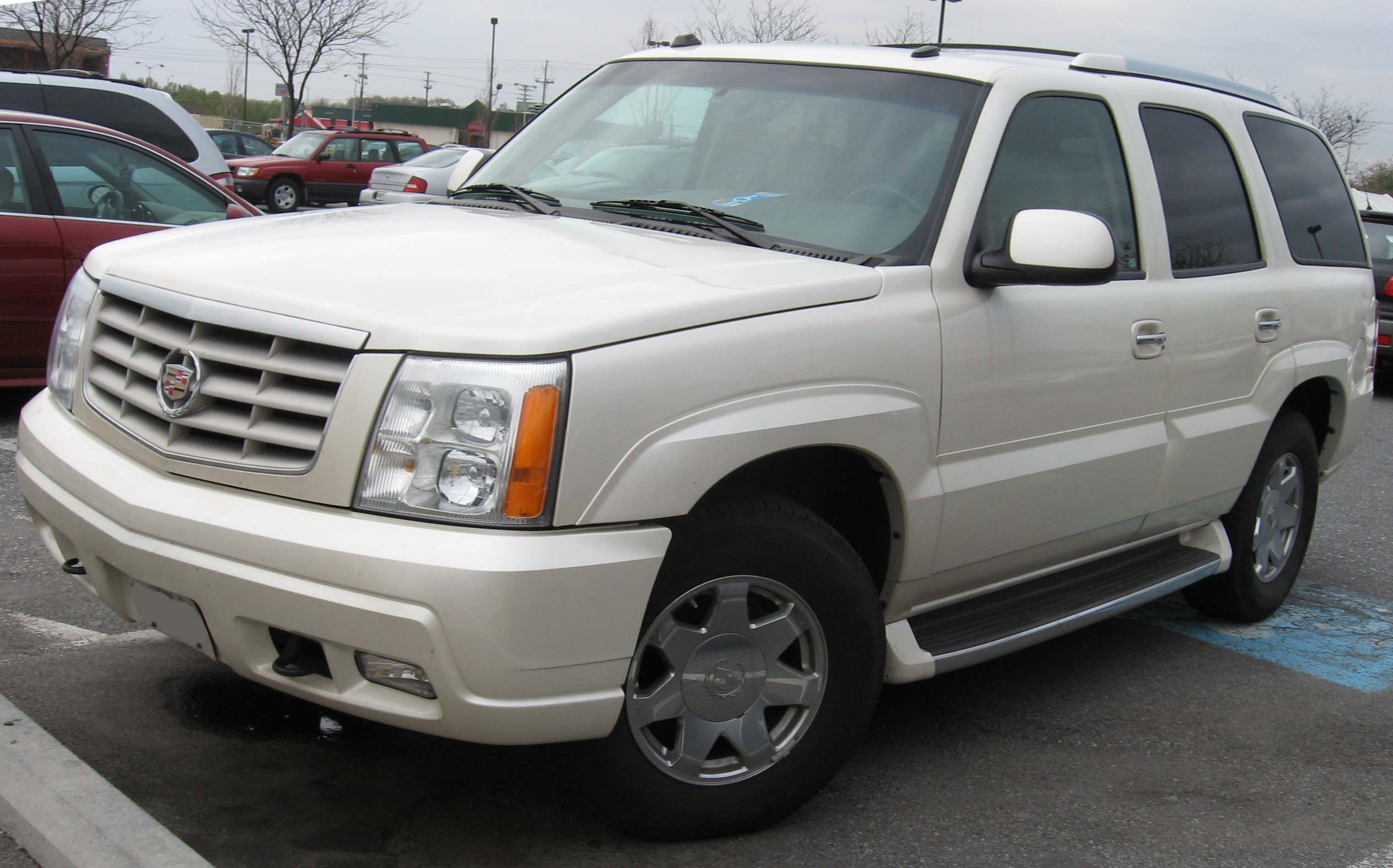 2002-2006 Cadillac Escalade photographed in USA.